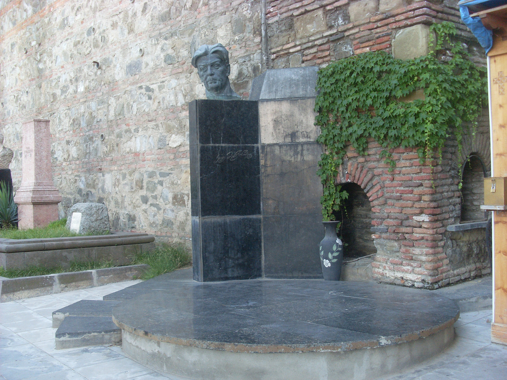 Grave of a famous Georgian theater director Konstantine "Kote" Marjanishvili